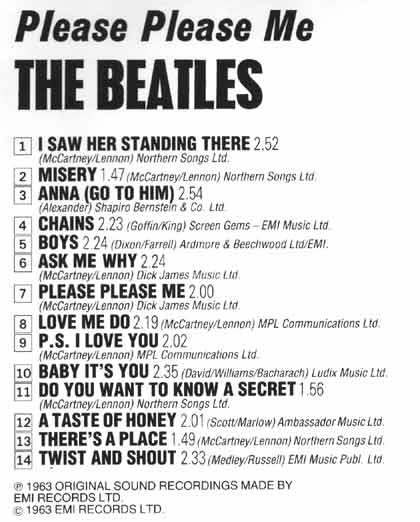 Cover of the Please Please Me album in which songs were credited to "McCartney/Lennon" as it can be seen...